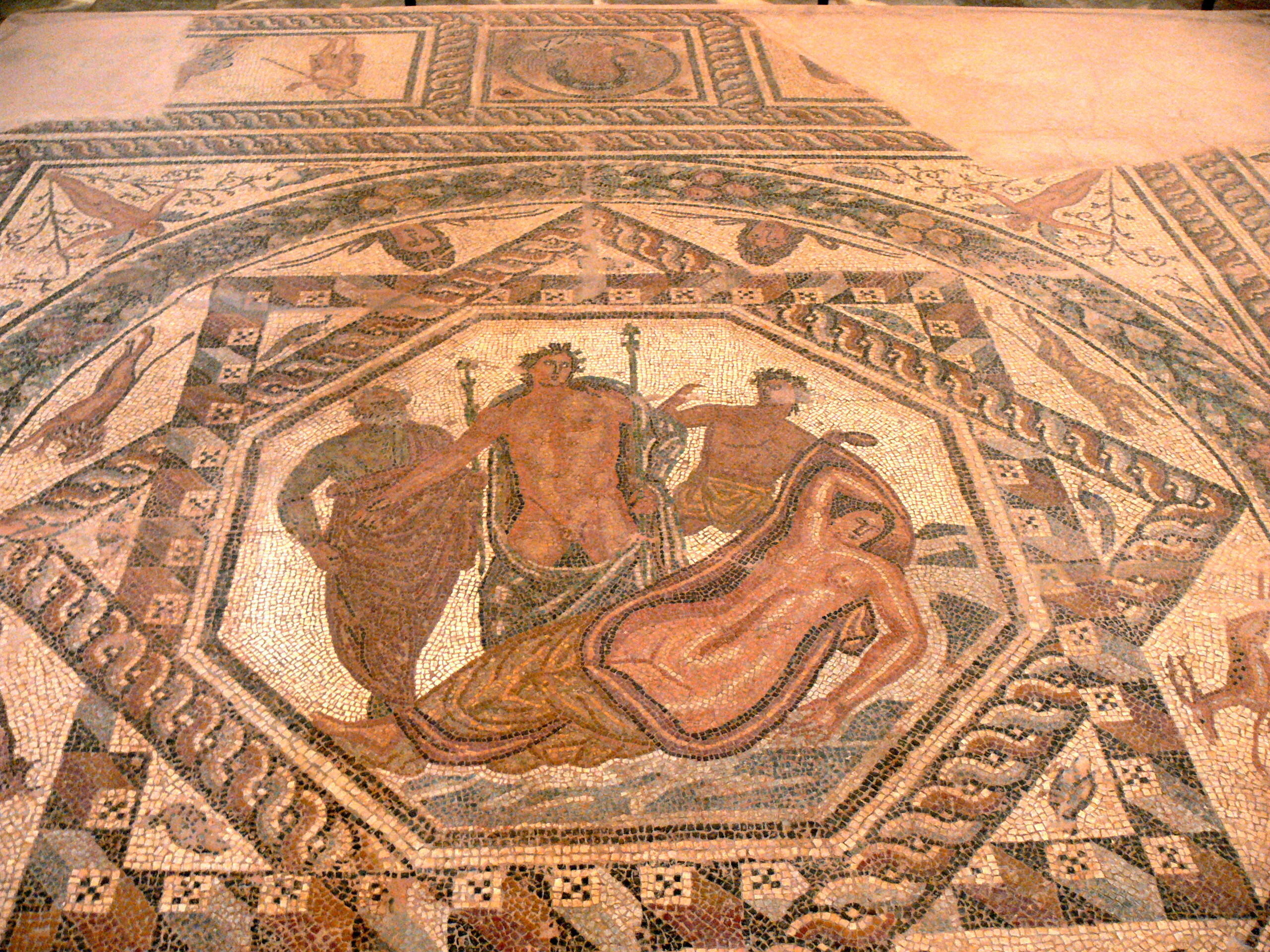 Archaeological Museum in Chania. Roman mosaic showing Dionysos and Ariadne.